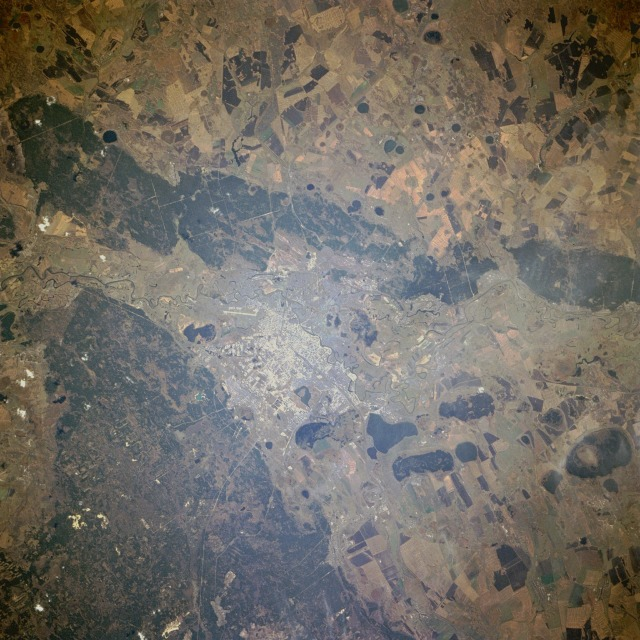 Kurgan, Russia October 1994. Kurgan, one of the oldest cities in Siberia, can be seen in this north-looking, low-oblique photograph. Situated in the valley of the Tobol River, Kurgan is a southwest Siberian rail junction on the Trans-Siberian Railroad. The city manufactures grain elevators, flour milling equipment, buses, chemical equipment, food products, and farm and road building machinery; it also has meat packing plants. More here